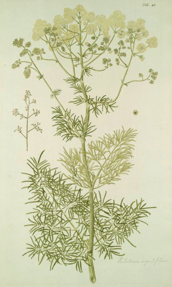 Illustration of Thalictrum lucidum